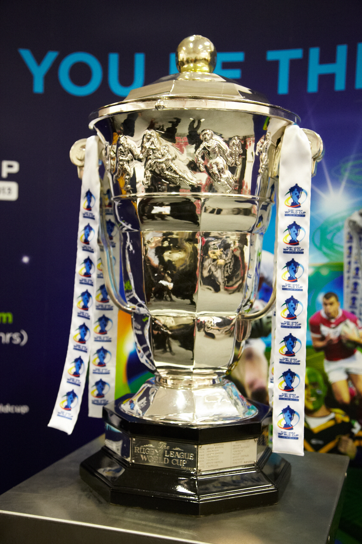 Rugby League World Cup trophy during RLWC Event Rugby at Leeds Central Library.